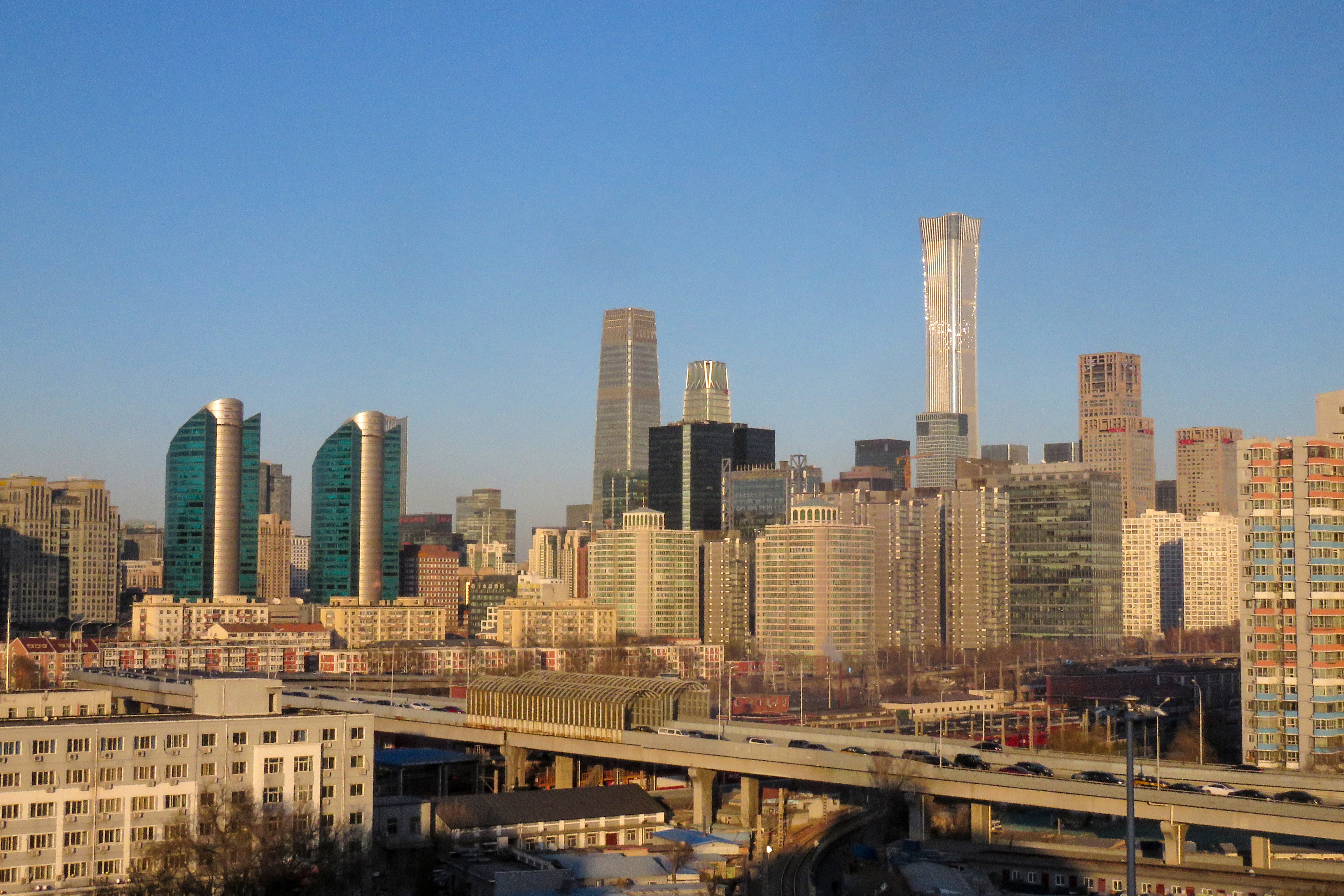 China Beijing Dabeiyao - this is what some people call CBD. Taken 45 minutes before bidding farewell to the last T31.